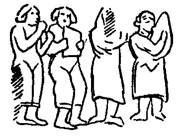 Illustration from 1911 Encyclopædia Britannica, article BAG-PIPE. Fig. 2.—Ancient Persian bag-pipe. (From Sir Robert Porter's Travels in Georgia, Persia, &c., vol. ii. p. 177, pl. lxiv.)